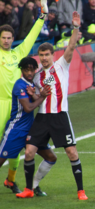 Andreas Bjelland, Brentford FC footballer, Stamford Bridge, London, January 2017.